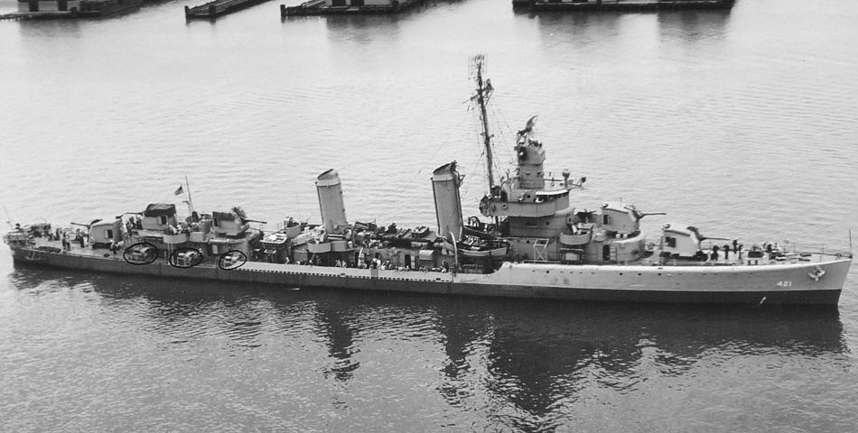 The U.S. Navy destroyer USS Benson (DD-421).